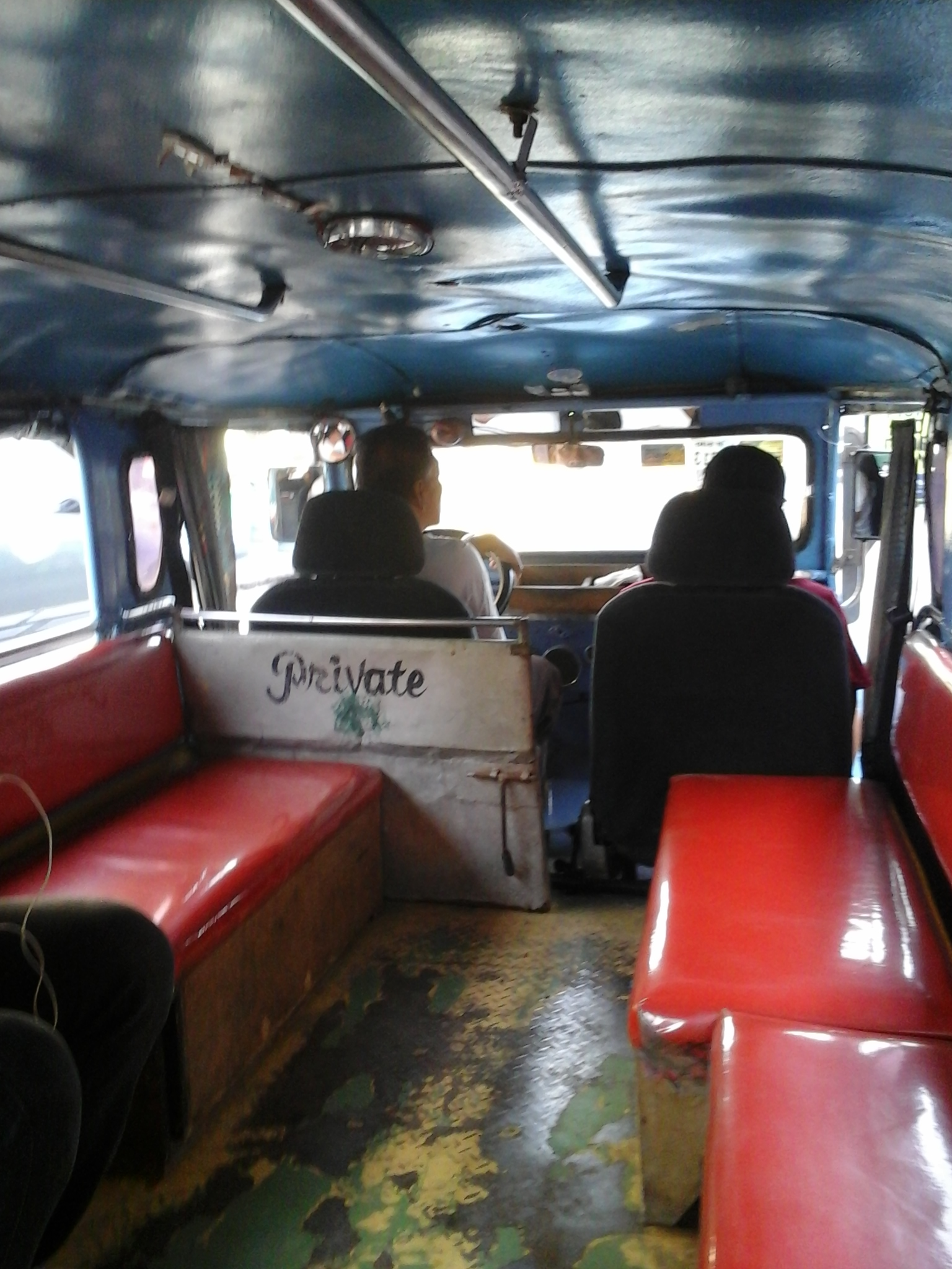 The interior of a Philippine jeepney